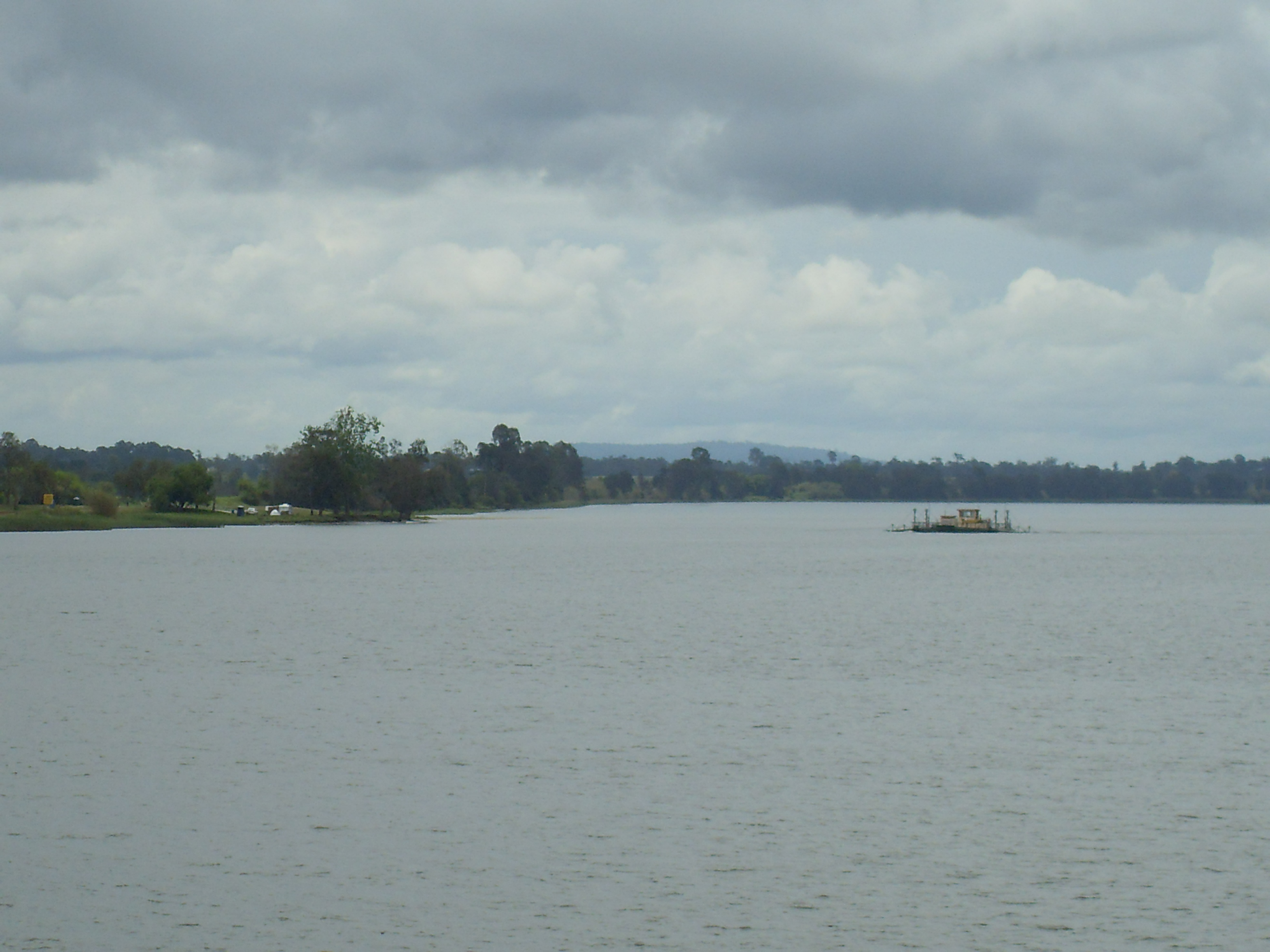 Cable_ferry from Ulmarra to Southgate over the Clarence River downstream of Grafton, New South Wales, Australia